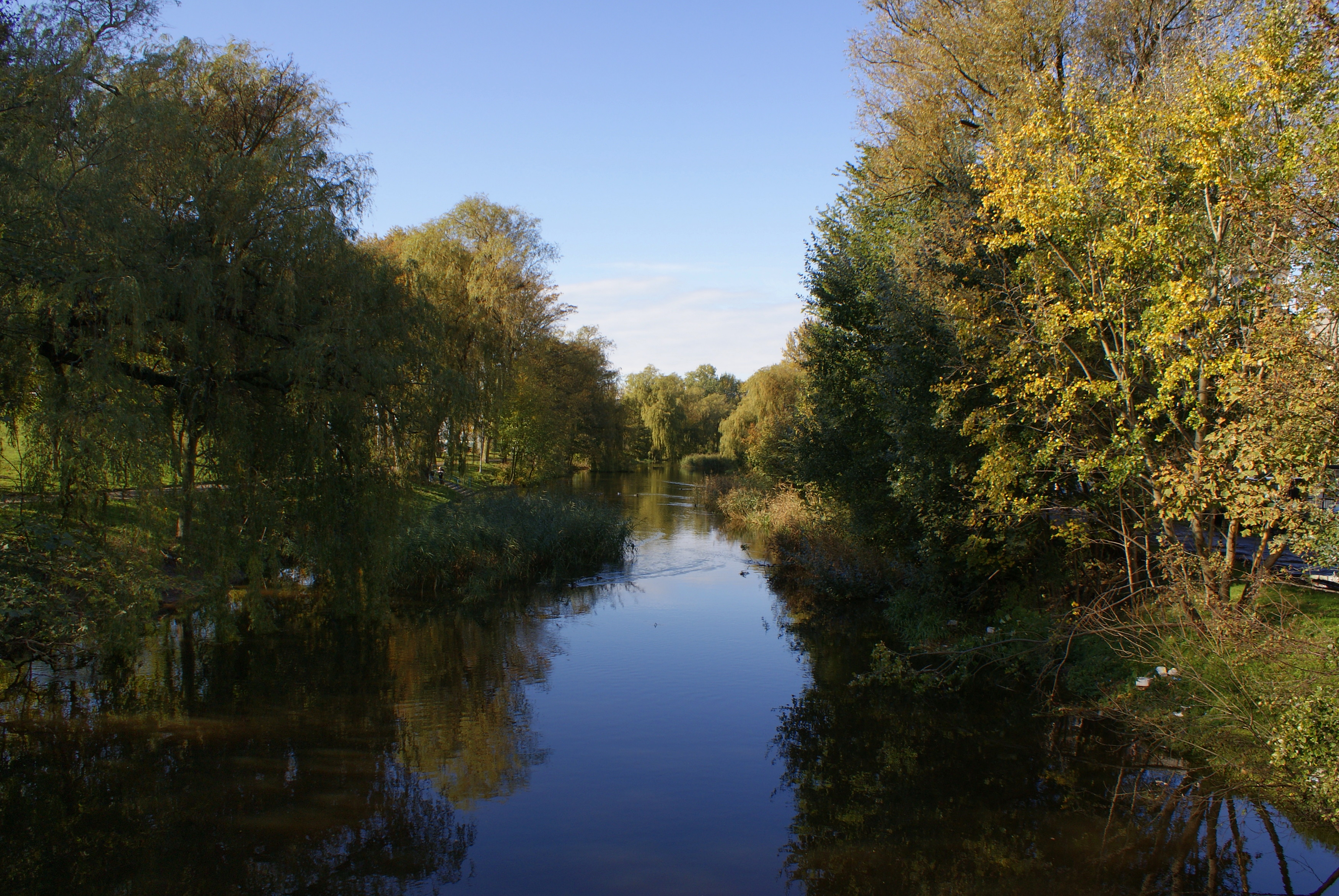 Kanał Drzewny view from Edmund Łopuski Steet bridge in Kołobrzeg